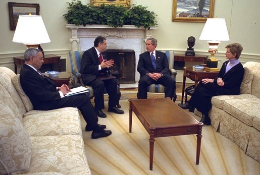 President George W. Bush meets with Secretary of State Colin Powell, left, Secretary of Energy Spencer Abraham, center, and EPA Administrator Christine Todd Whitman in the Oval Office Thursday, Feb. 27, 2003. White House photo by Paul Morse.